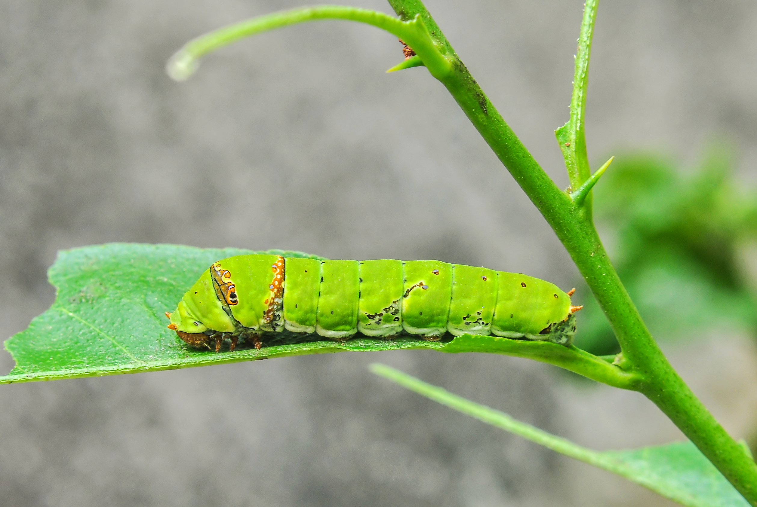 Papilio polytes caterpillar. Photographed at Burdwan, West Bengal, India.